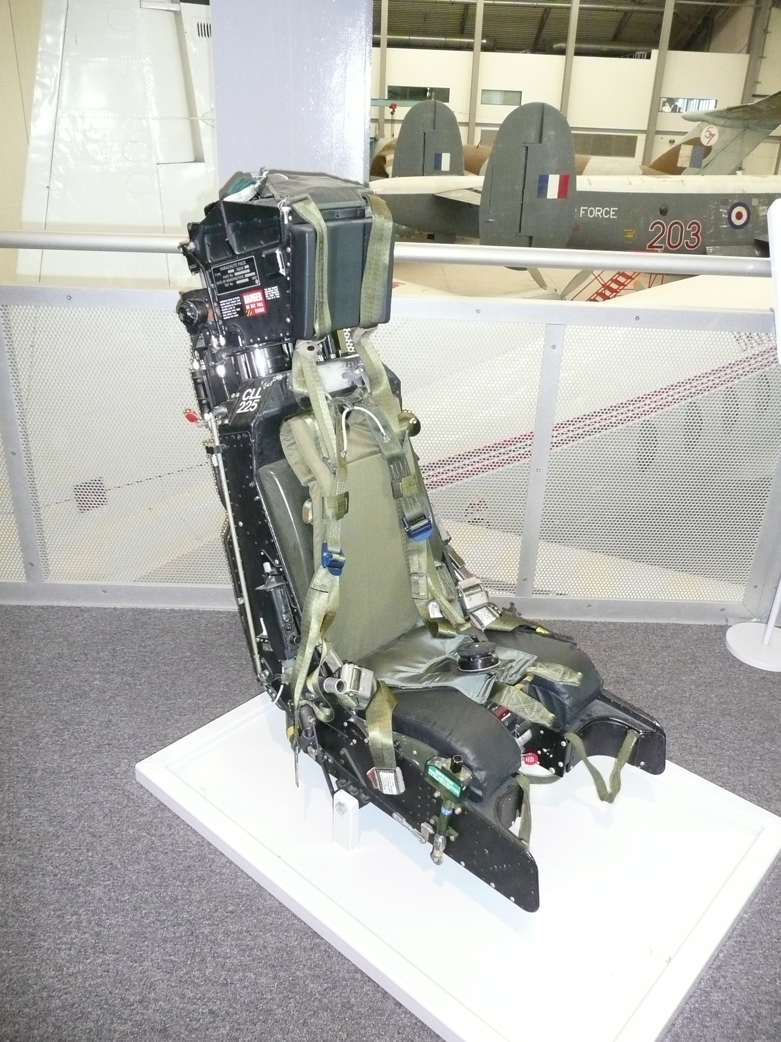 Martin-Baker Ejection Seat Mk 9B, Imperial War Museum Duxford in Duxford.